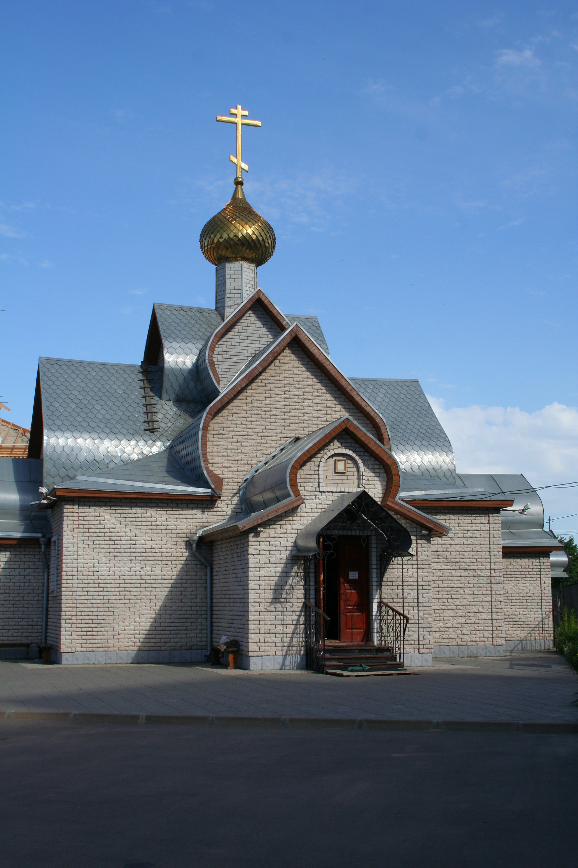 Church of St. John the Baptist in Brateevo, Moscow.